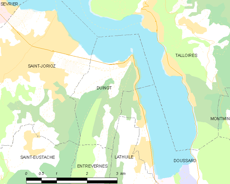 Map of French municipality Duingt